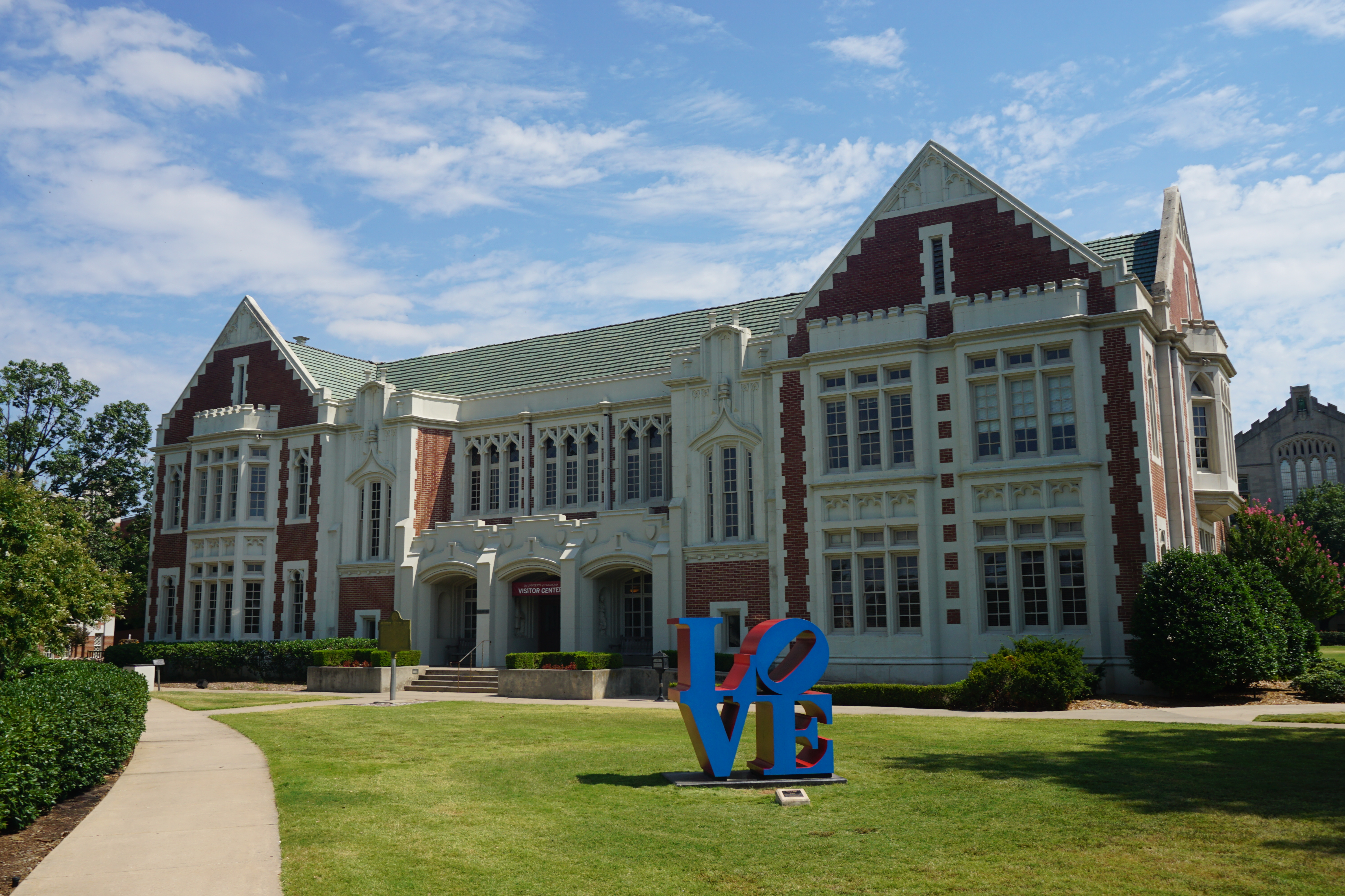 The Visitor Center on the campus of the University of Oklahoma in Norman, Oklahoma (United States).